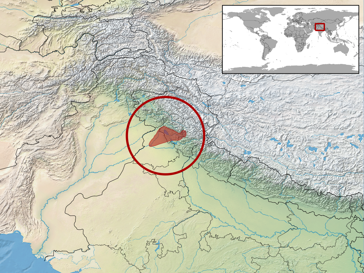 geographic distribution of Cyrtodactylus malcolmsmithi (Native: India (Punjab)).